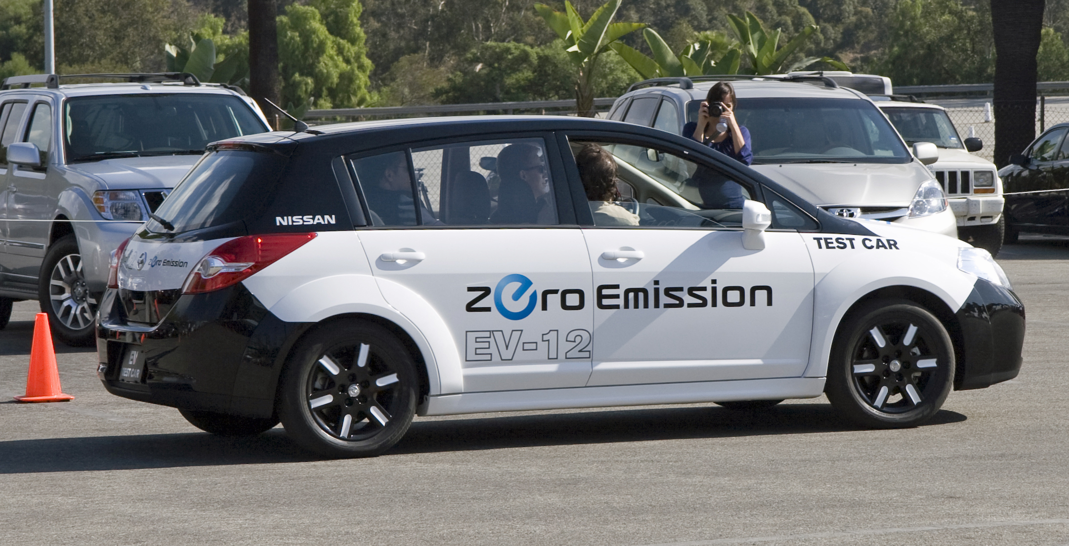 The EV-12 test car was Nissan's second prototype (based on a Nissan Tiida/Versa) with the all-electric drive train used in the Nissan Leaf electric car. Trimmed by User:Mariordo